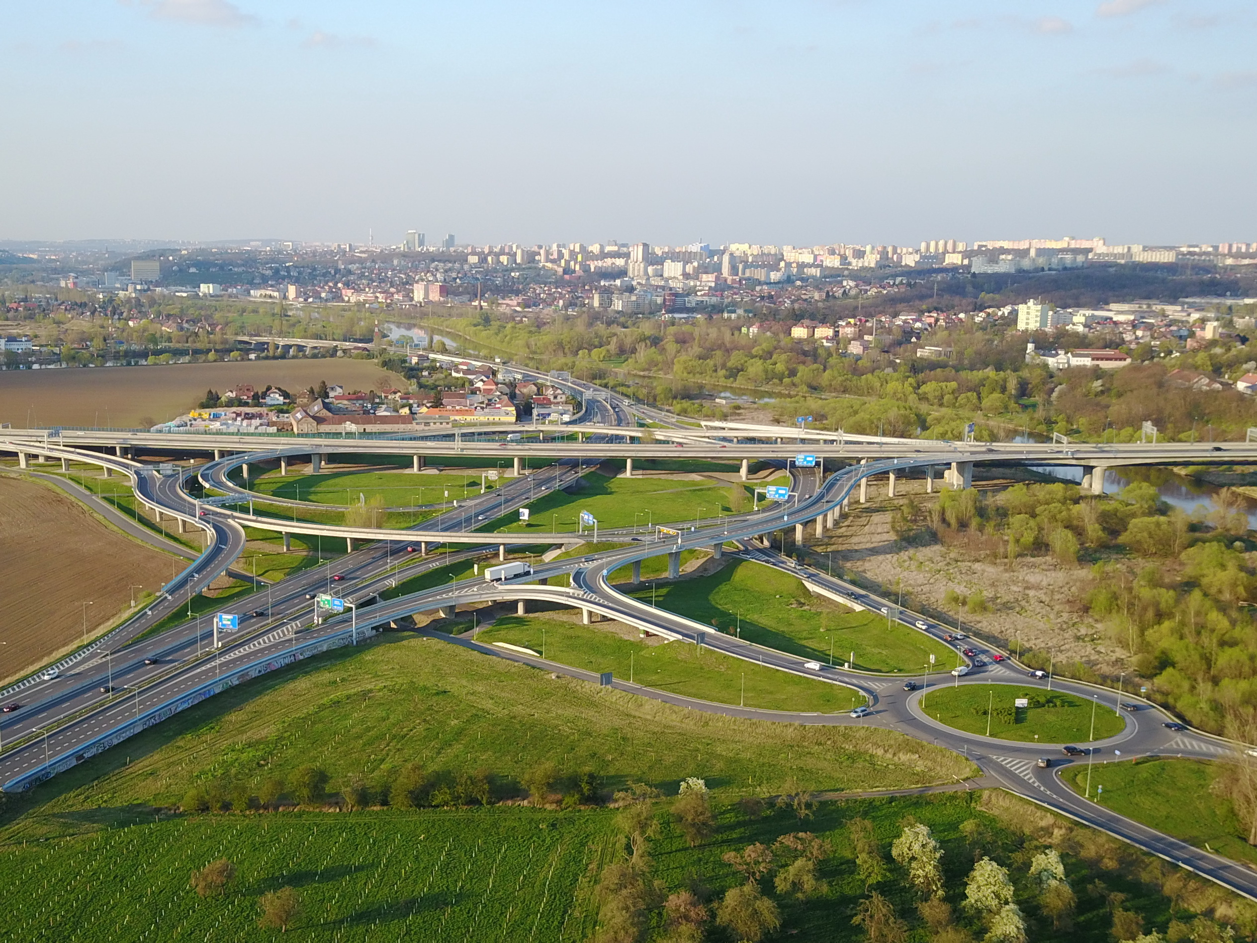 The largest Czech crossroads in Lahovice near Prague, D0 motorway.